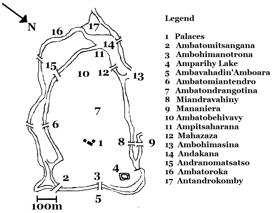 Defenses and gates at the royal city of Ambohimanga, Madagascar, circa 1981. The complex originally had seven interior and seven exterior gates. Based on a drawing by Razafintsalama (1981), in Nativel, Didier (2005) (in French). Maisons royales, demeures des grands à Madagascar. Paris: Karthala Editions. ISBN 9782845865396 (page 69).